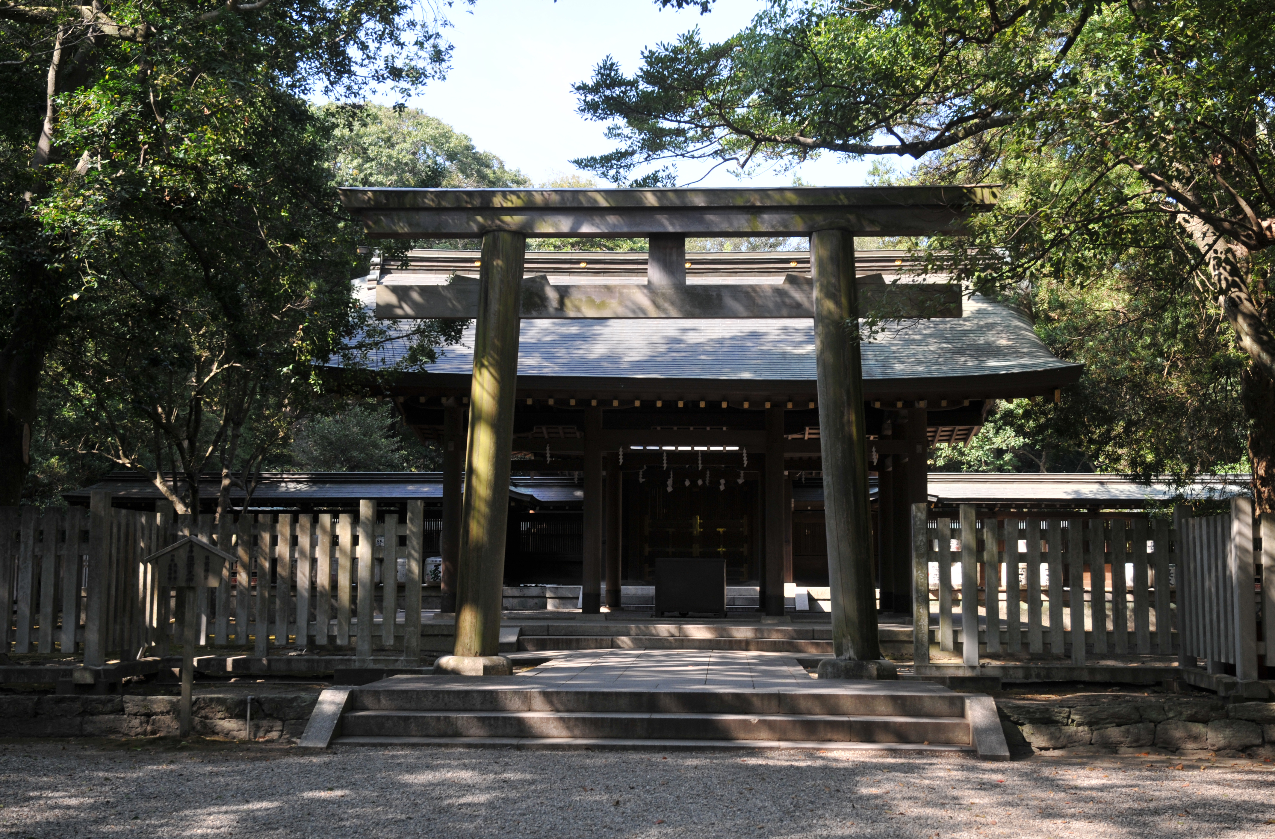 Hinokuma-jingu